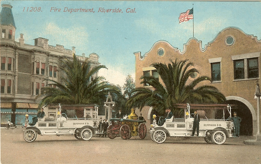 Postcard of the Riverside, California Fire Department, circa 1910, at the corner of Eighth (now University) and Lime Streets. Fire Station #1 is on the right, and the Arlington Hotel is on the left.